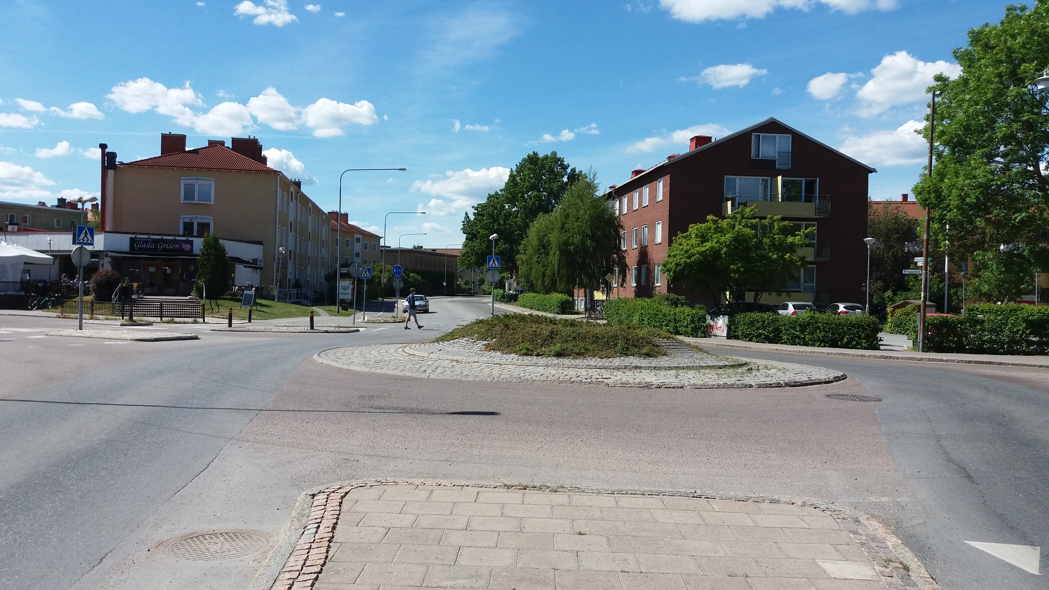 Börjegatan, Uppsala.